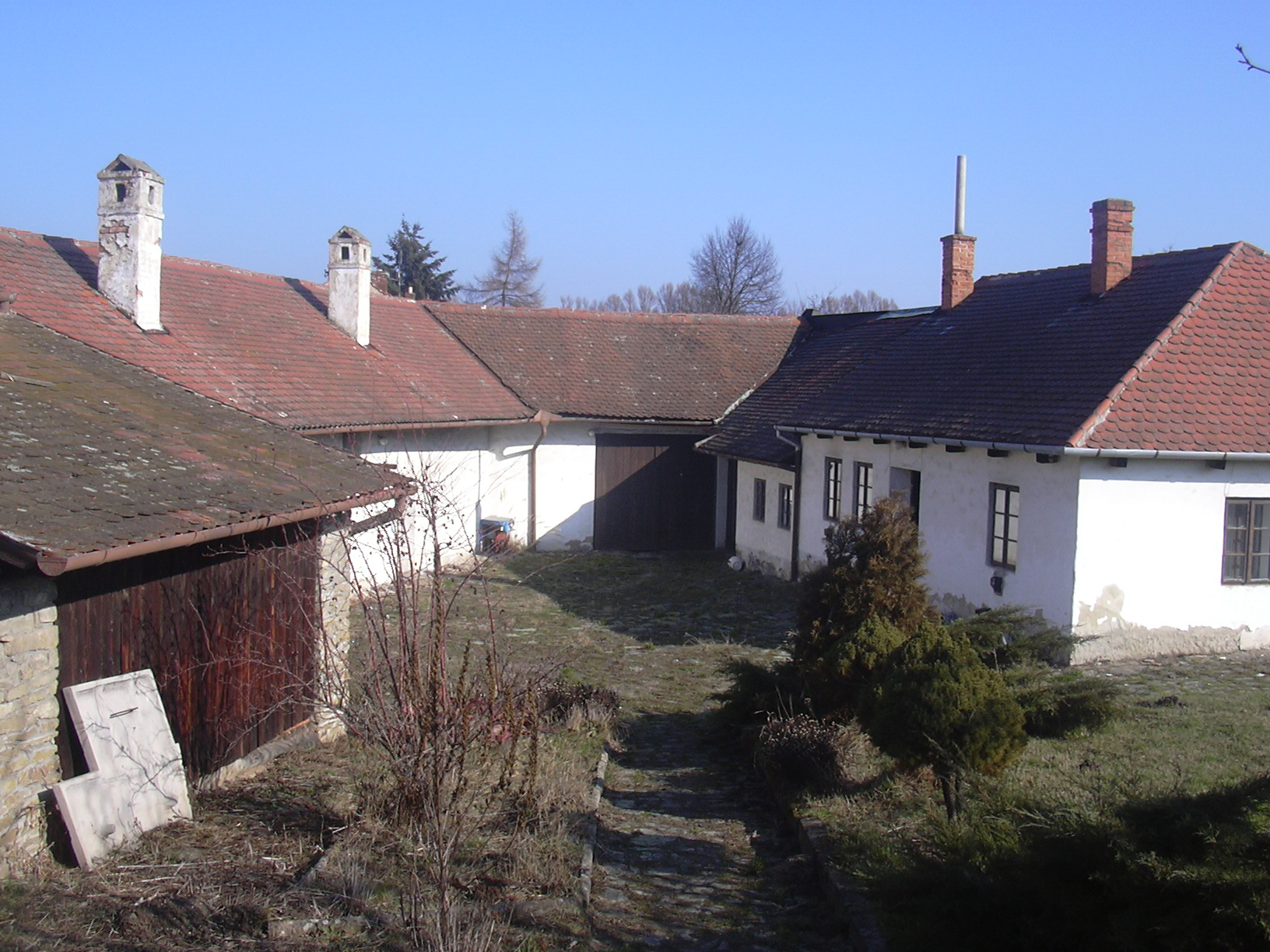 Birthhouse of Klement Gottwald in Dědice (part of Vyškov), Czech Republic.